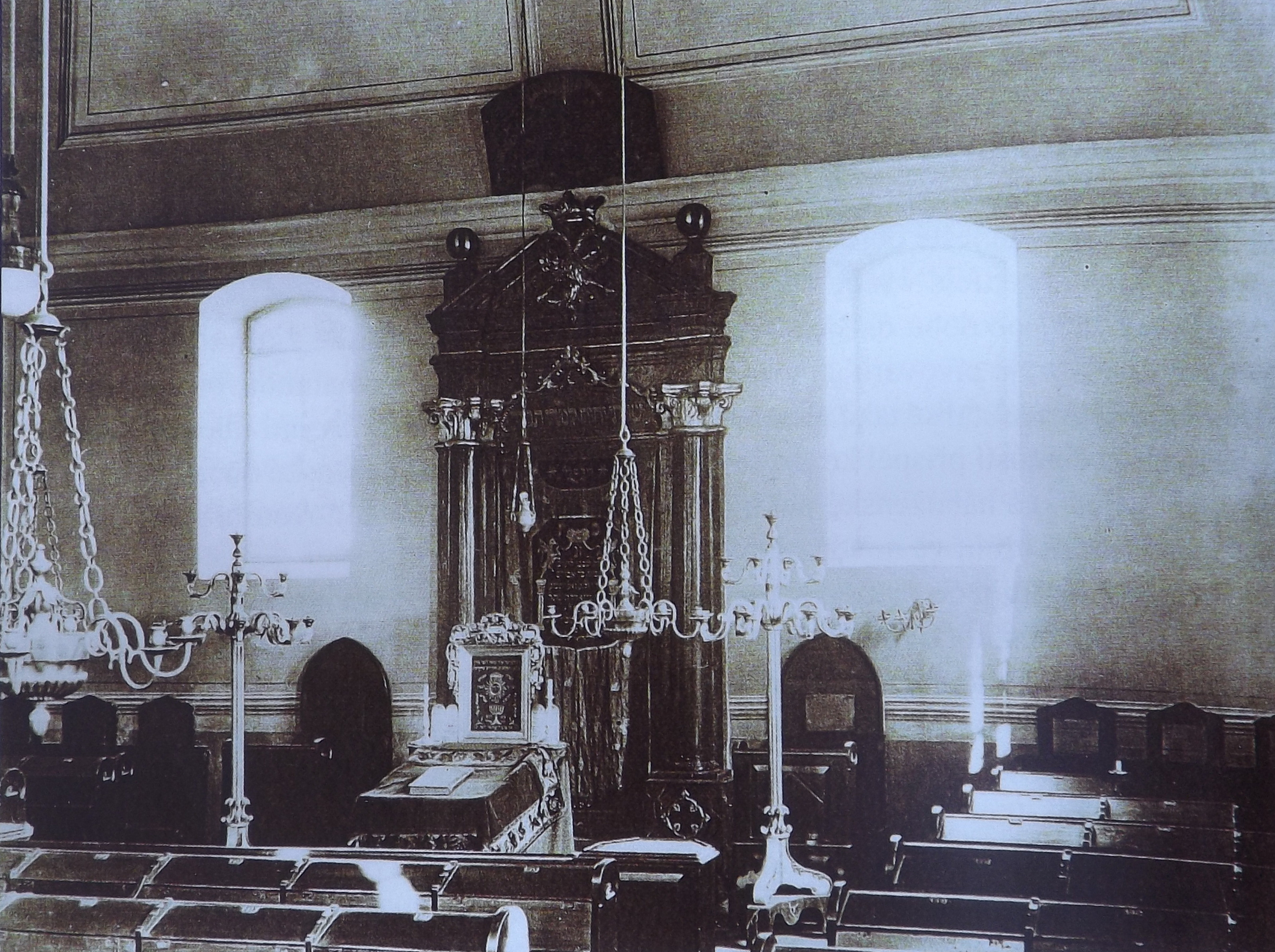 Interior of the synagogue in Kojetín 1931